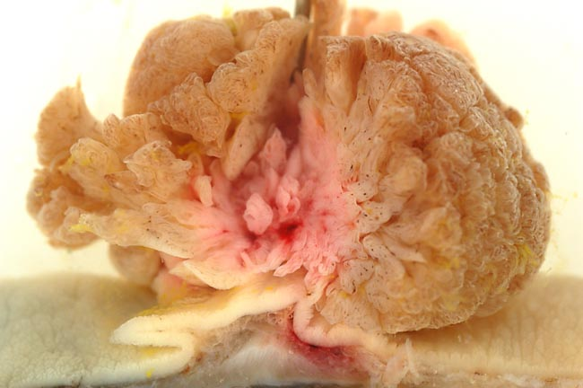 Another case of villous adenoma of the transverse colon, this one more discrete and polyp-like than the case above. Although it had a semi-decent stalk, it was still far too large for safe removal by endoscopy, so the surgeon was called in to do a segmental resection of the colon. Prior to photographing, the specimen was pinned out in formalin and fixed overnight. The pink color in the center of the mass indicates that the formalin did not penetrate the whole lesion. Shame on me for being chintzy with the formalin! Note how the surface texture of the villous adenoma differs markedly from that of the surrounding colonic mucosa. The photo above was shot with a Nikon D100 digital SLR with Sigma 50mm f/2.8 macro lens. I stopped the diaphragm way down (about f/22) to bring as much of this very three-dimensional lesion as possible into focus. In Photoshop, I resized the image for Web display, sharpened the 'L' channel in Lab mode, and used the Levels command to brighten it a bit. Since many Web users now have flat-panel displays (not as bright as CRTs) and use their monitors in full room lighting, I like to brighten up pictures more than I would for an image that was meant for projection in a properly darkened lecture hall. Photography by Ed Uthman, MD. Public domain. Posted 27 May 01; updated 20 Feb 05